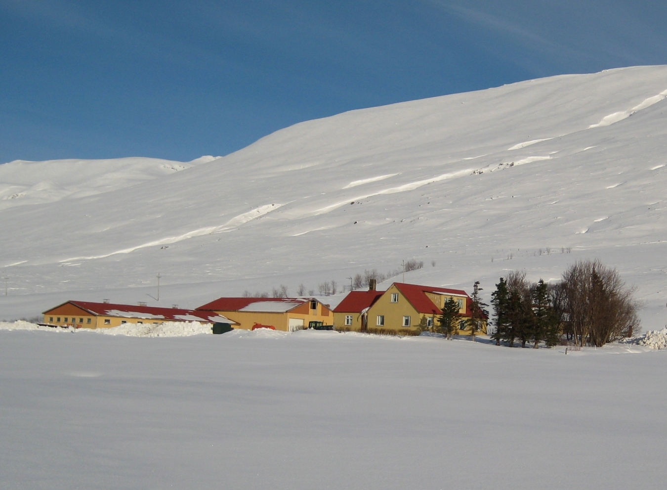 The farm Ytrahvarf, Svarfaðardalur, Dalvíkurbyggð, North Iceland